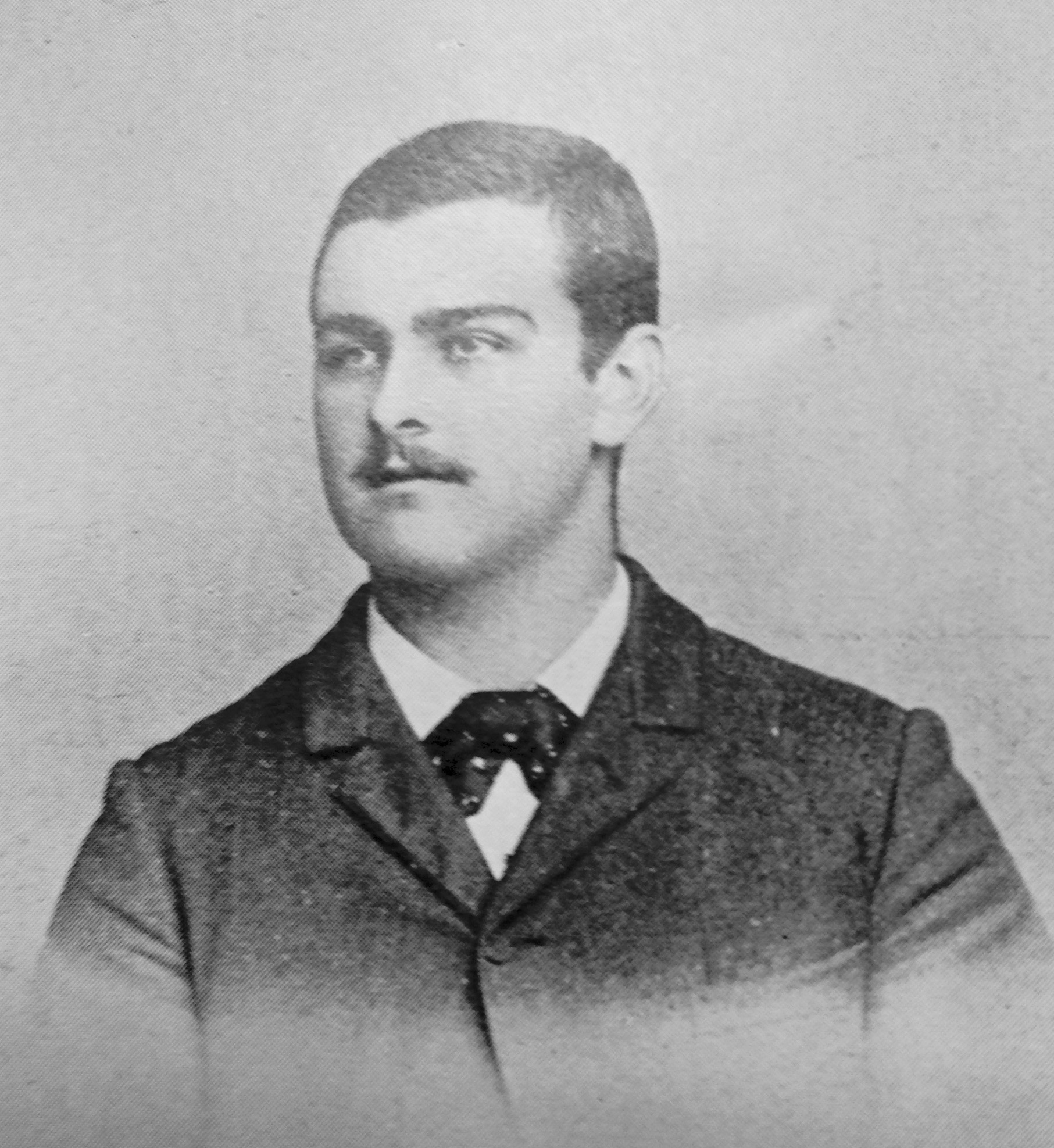 Julio Bianchi en su mocedad. Fotografía de 1898.